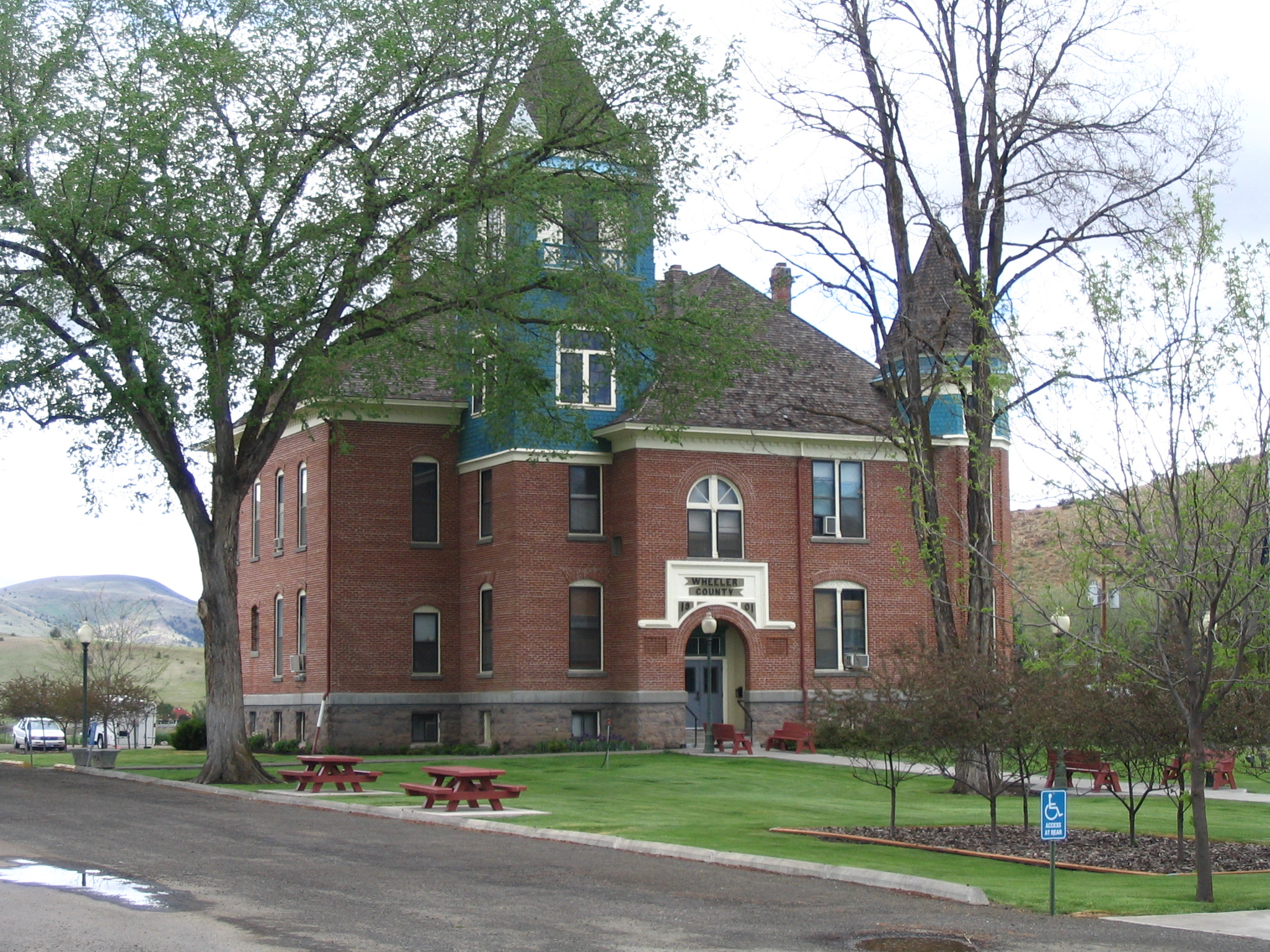 Fossil is a charming little town, really.